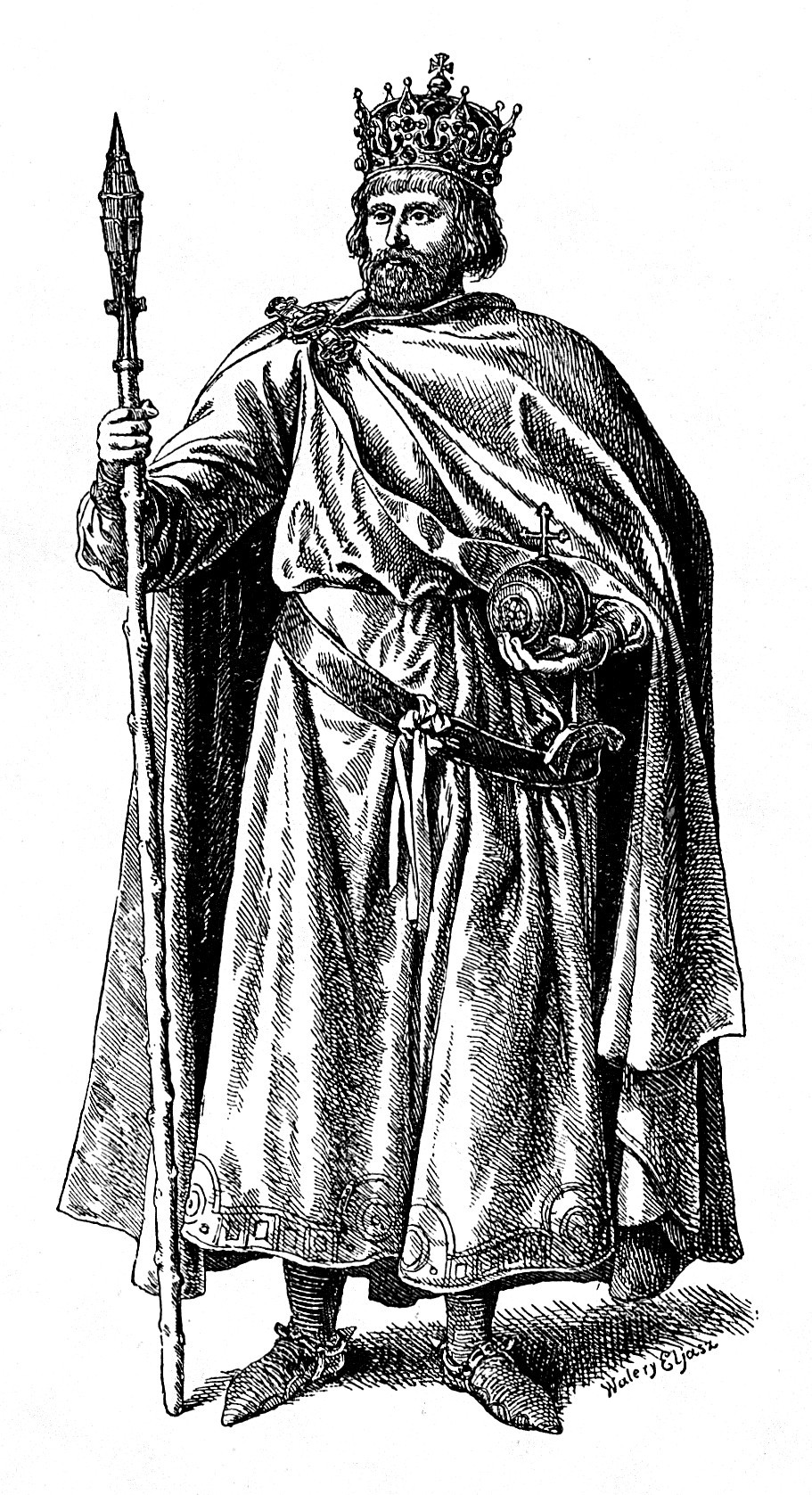 Casimir I, Duke of Poland